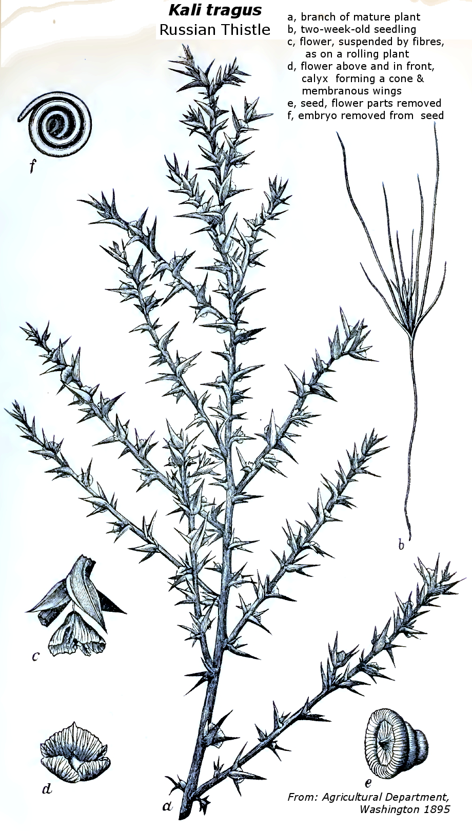 Kali tragus, misnamed Russian thistle, the main species of tumbleweed in the US Midwest.